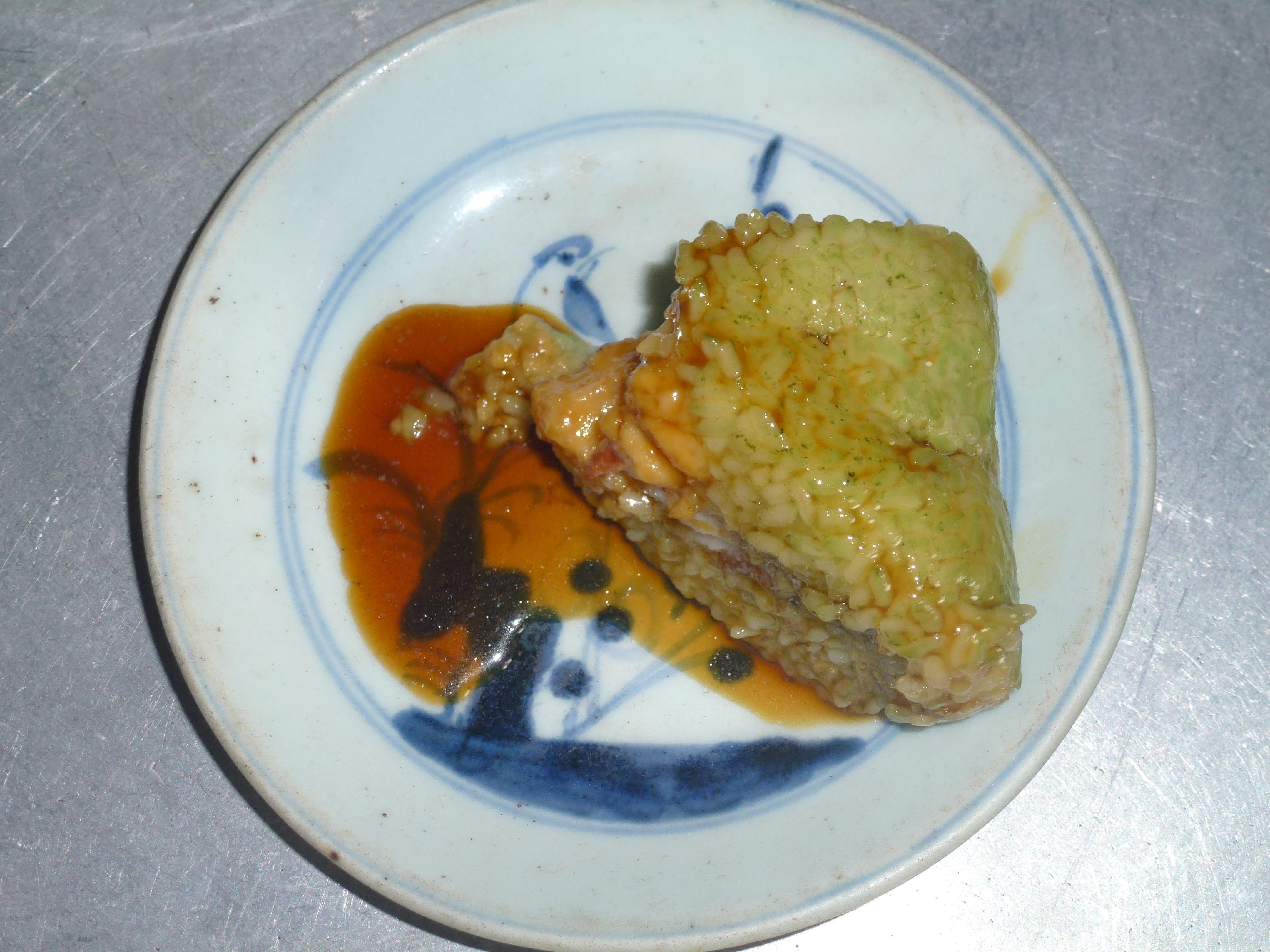 "Bánh chưng" and sugarcane syrupTiếng Việt: Bánh chưng chấm mật